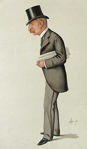 Caricature of John Slagg MP. Caption read "Manchester".